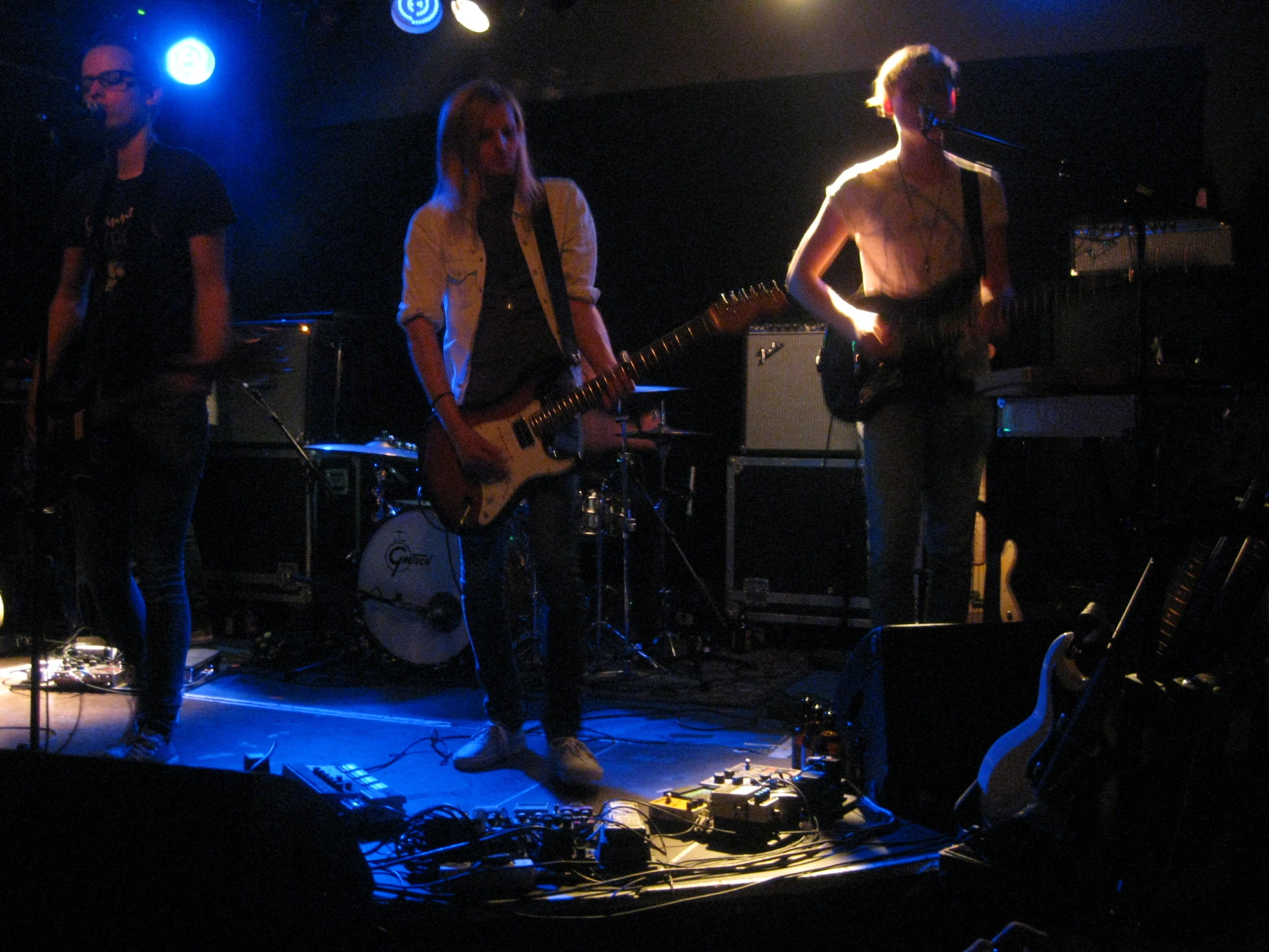 Comet Club / Berlin / 31st May 2011